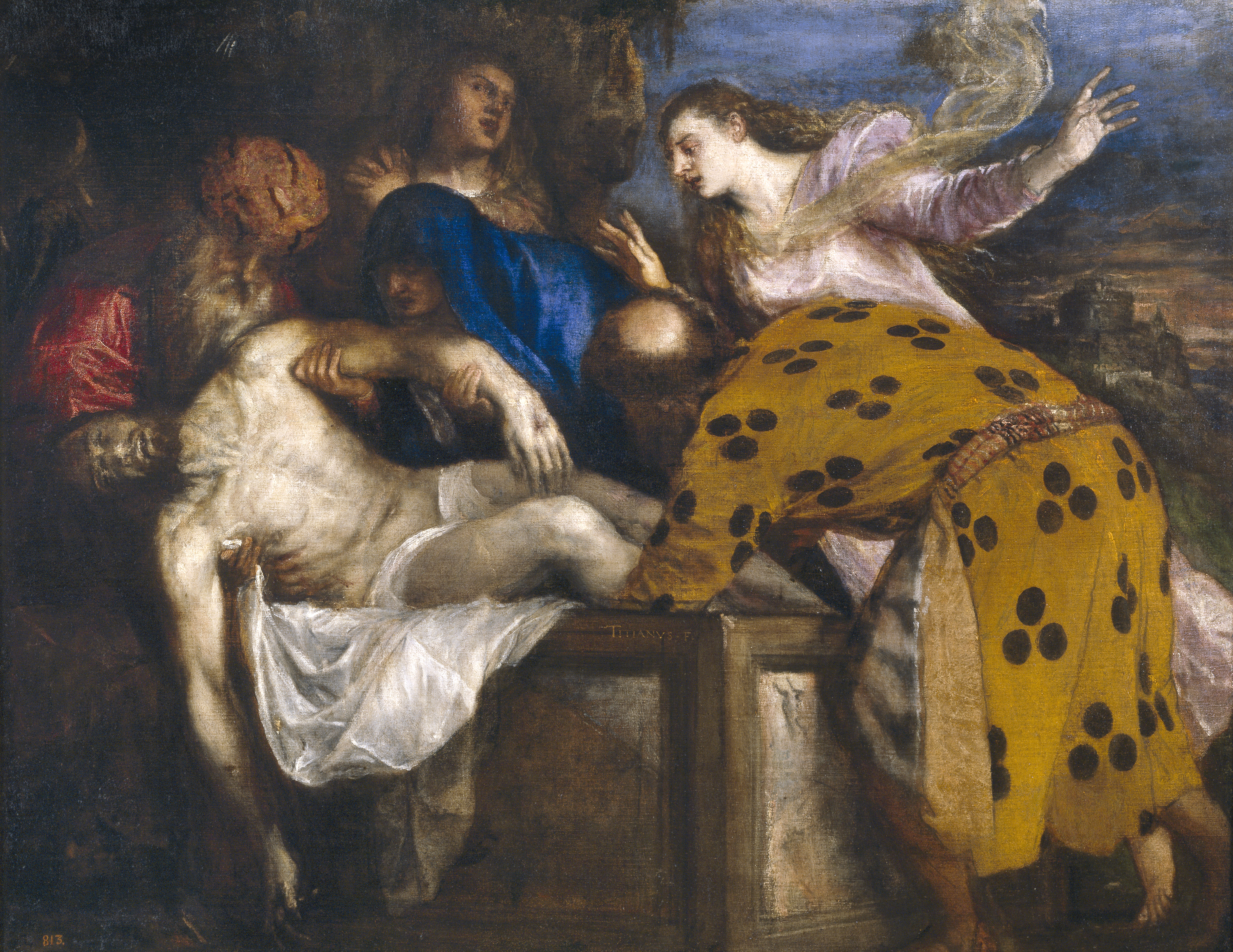 Joseph of Arimathea, Nicodemus and the Virgin Mary take Christ in the tomb watched by Mary Magdalene and Saint John the Evangelist